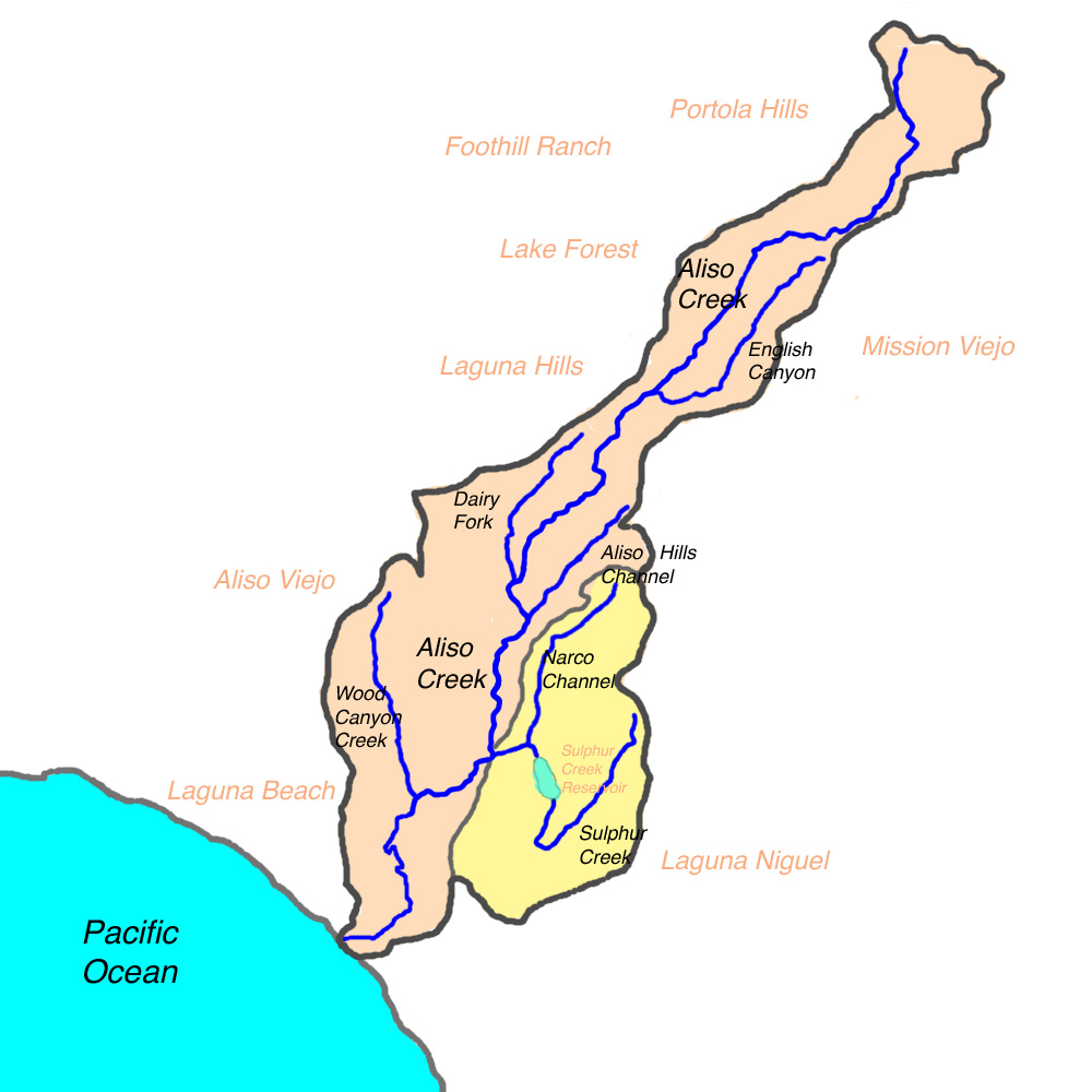 Map of Aliso Creek watershed, California, showing Sulphur Creek subwatershed